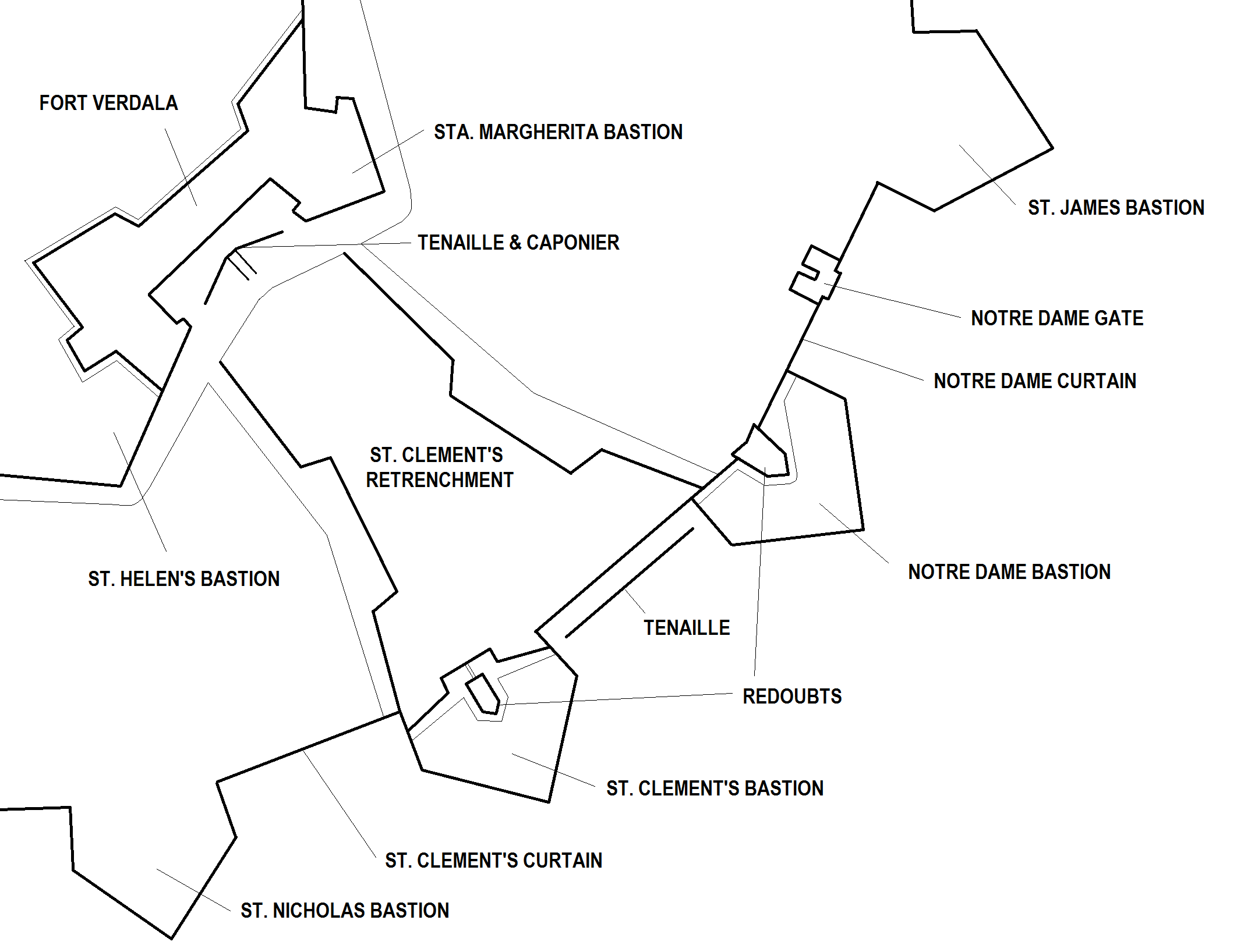 Map of Fort Verdala, St. Clement's Retrenchment, and parts of the Santa Margherita and Cottonera Lines in Cospicua, Malta